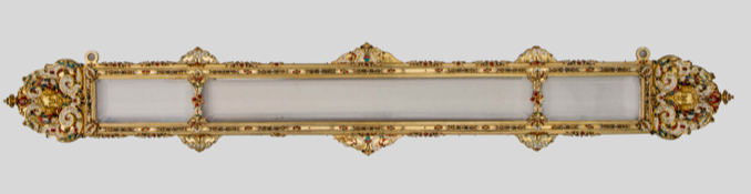 Manifattura Milanese